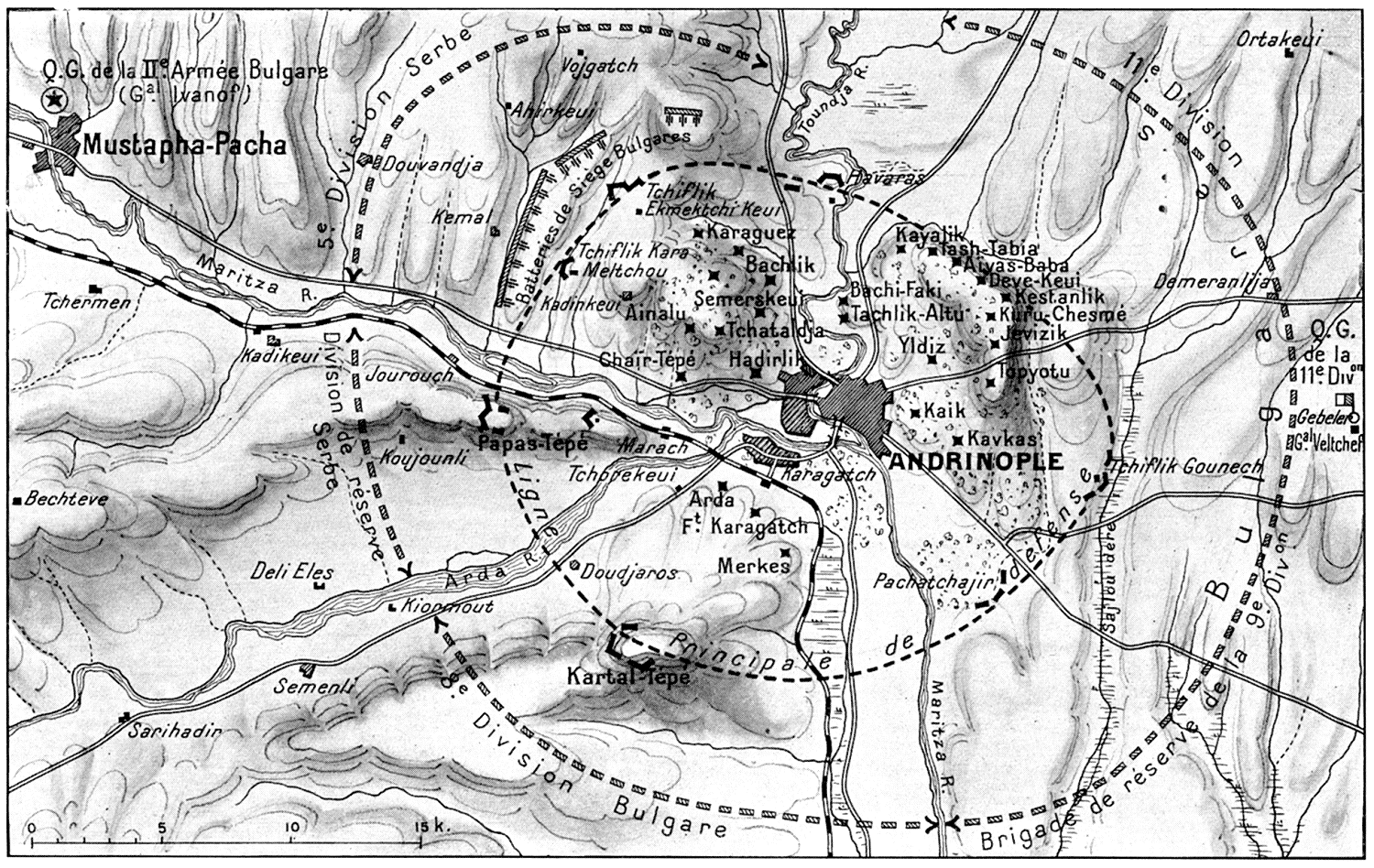 Map of the Siege of Adrianople in 1912-13